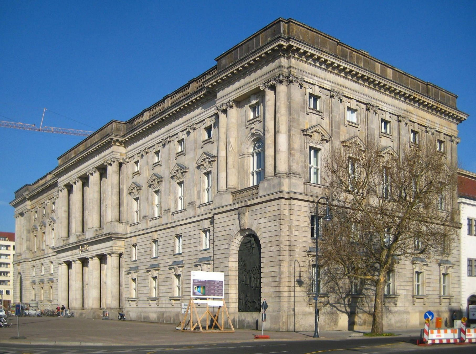 The front facade of the Neuer Marstall (New Royal Stables) in Berlin-Mitte. It was built 1896-1901 by Royal Architect Ernst von Ihne in the Neo-barock style as substitue for the Royal Stables Unter den Linden, which were demolished to make room for what is now House 1 of the Staatsbibliothek zu Berlin (Berlin State Library). The former horse stables of Neuer Marstall were turned into book stacks in 1921 and the building was forthwith used by the Berlin City Library. Damaged in WWII, the building was reconstructed 1950-1954 and 1961-1965 without most of the original ornaments by sculptor Otto Lessing. It is still partly used by the Berlin City Library and also houses the "Hochschule für Musik 'Hanns Eisler'" ("University for Music 'Hanns Eisler'"). The building has been designated as a historic landmark.